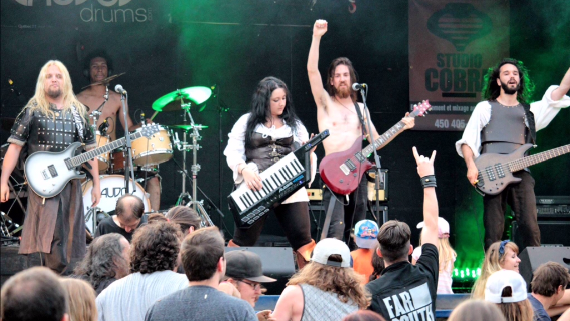 Distoriam Live in 2016 in Waterloo, QC